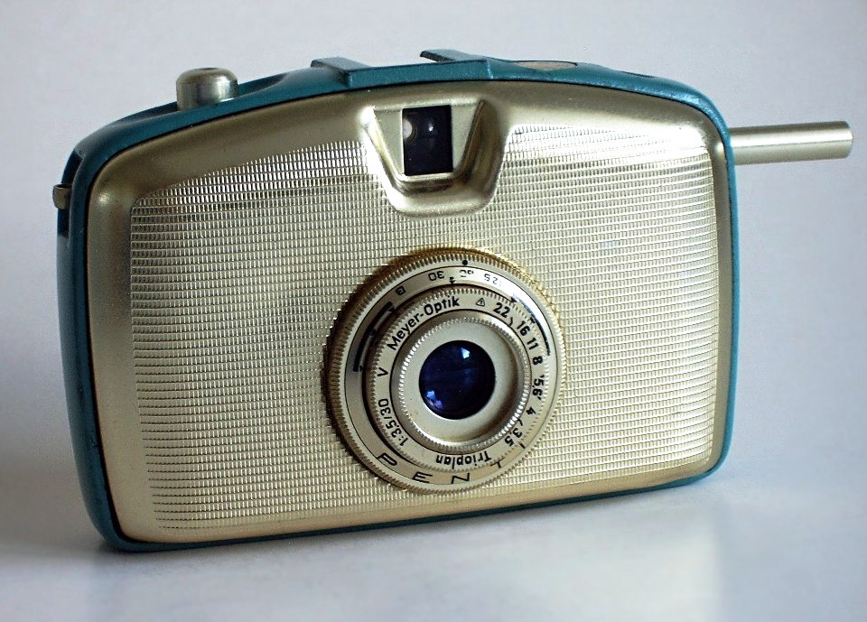 Pentacon Penti I camera. Made in G.D.R. Photo made by myself.